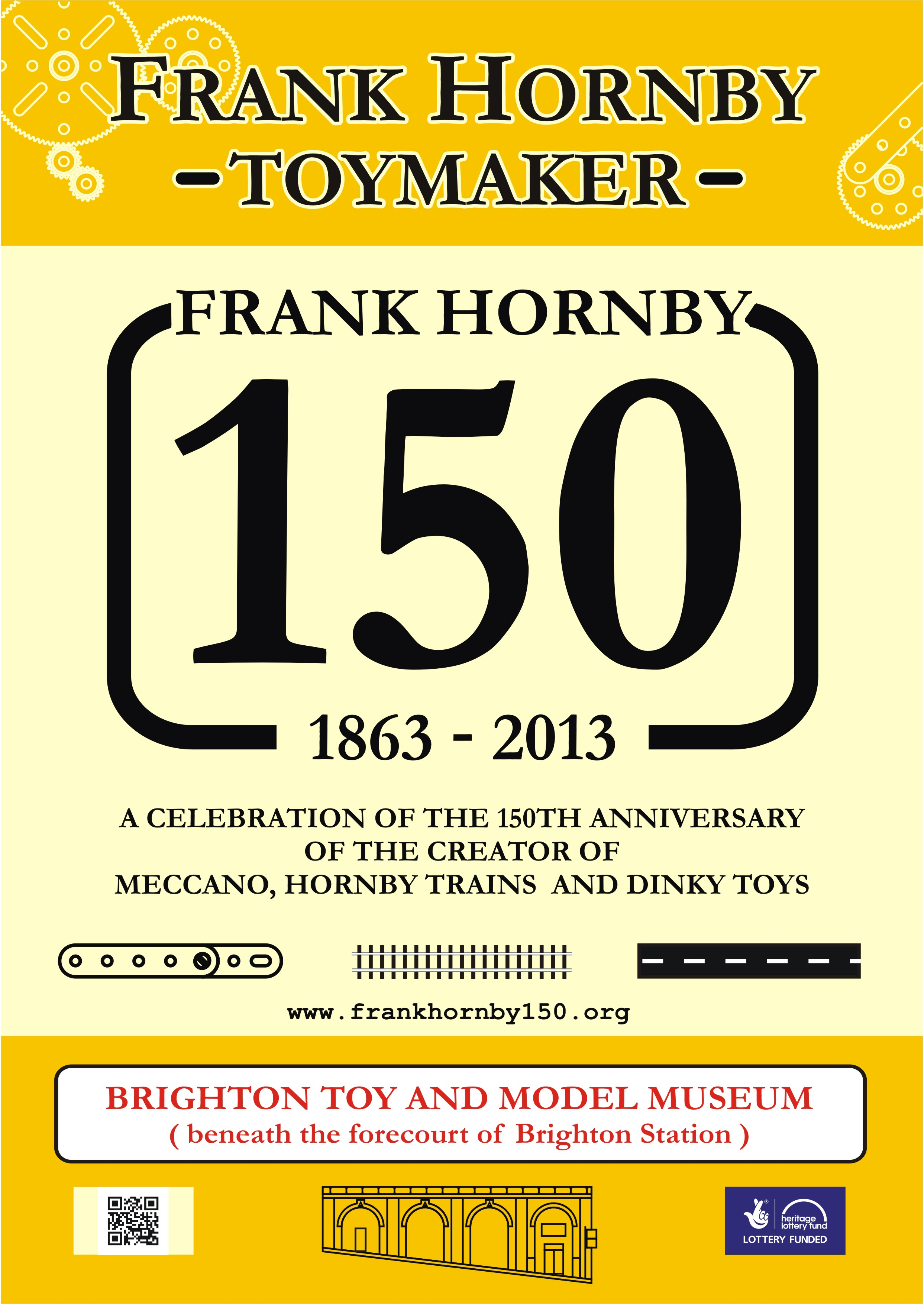 Orange and yellow poster for Brighton Toy and Model Museum's Frank Hornby 150th anniversary project, funded by the Heritage Lottery Fund